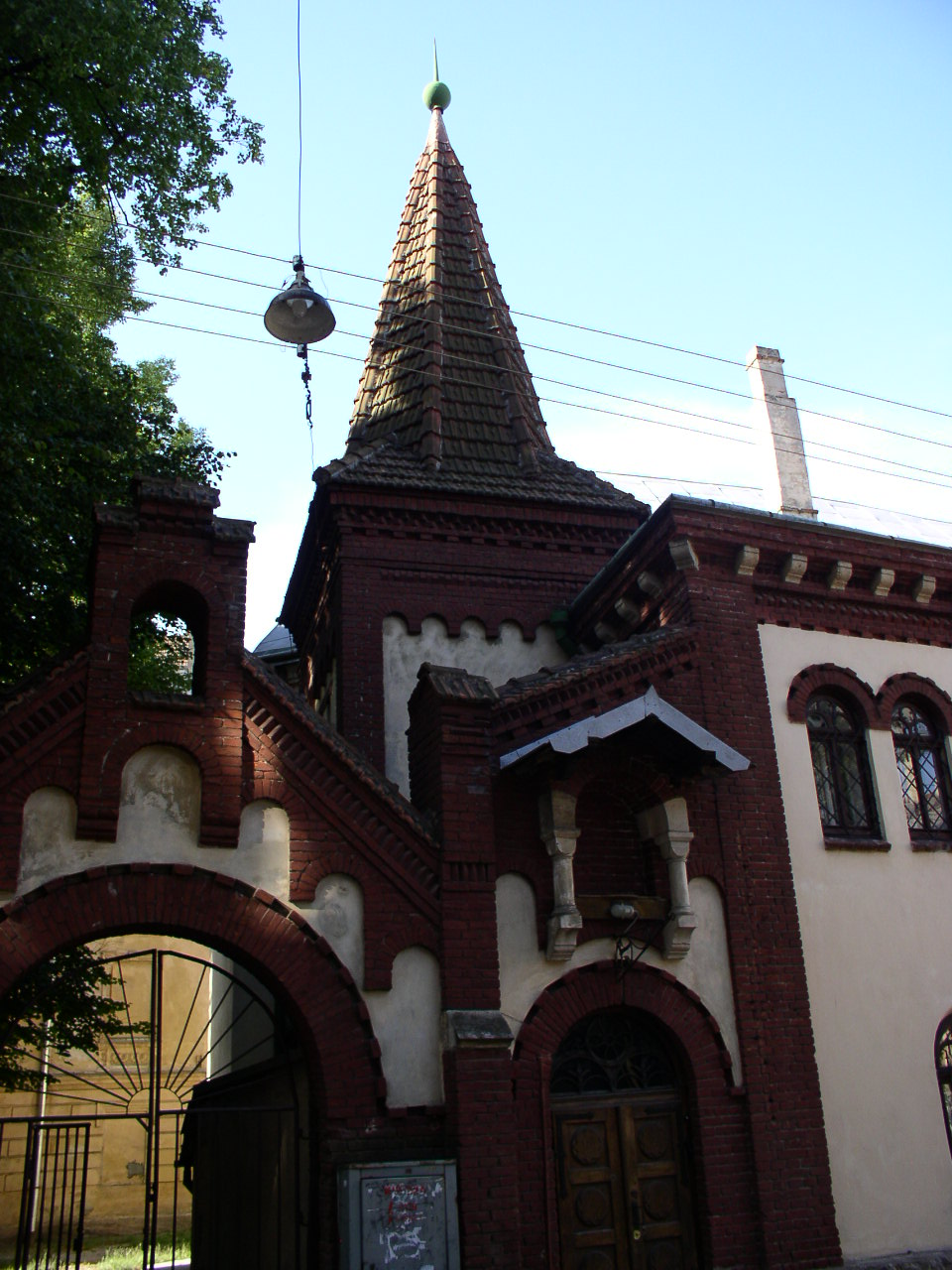 Church of Mary the Snowy. Lviv, Ukraine